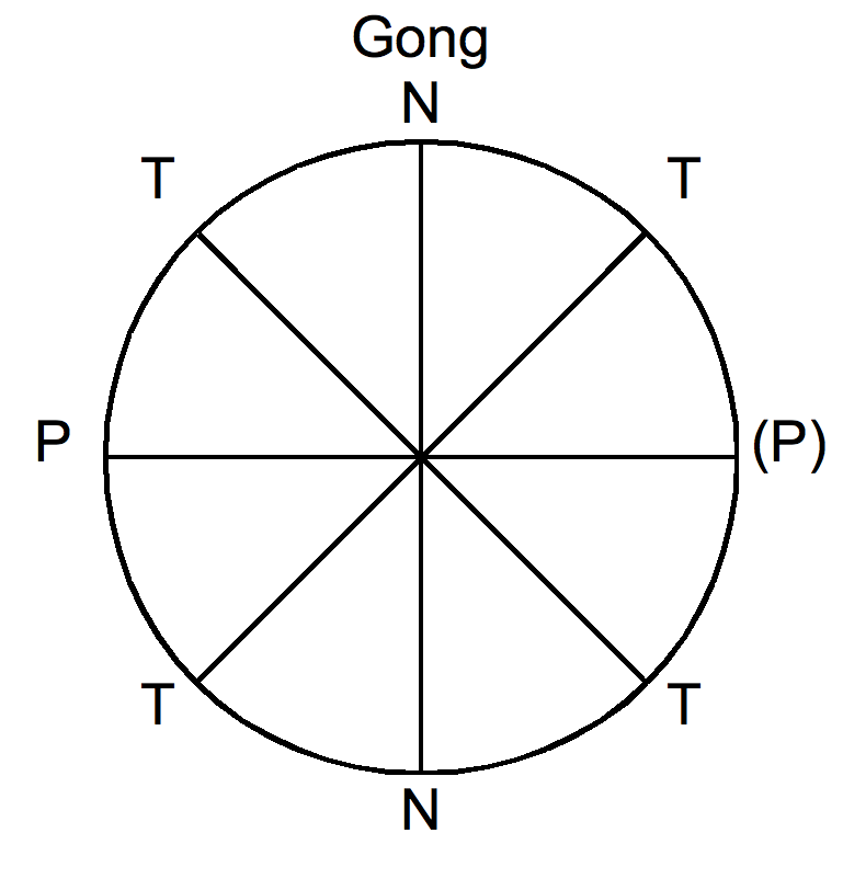 Clock diagram of a ketawang colotomic structure. T = kethuk P = kempul N = kenong Gong = gong ageng = possible wela After Malm, William P. (1977). Music Cultures of the Pacific, the Near East, and Asia, 2nd ed., p.53. Englewood Cliffs, NJ: Prentice Hall. ISBN 0131823876.